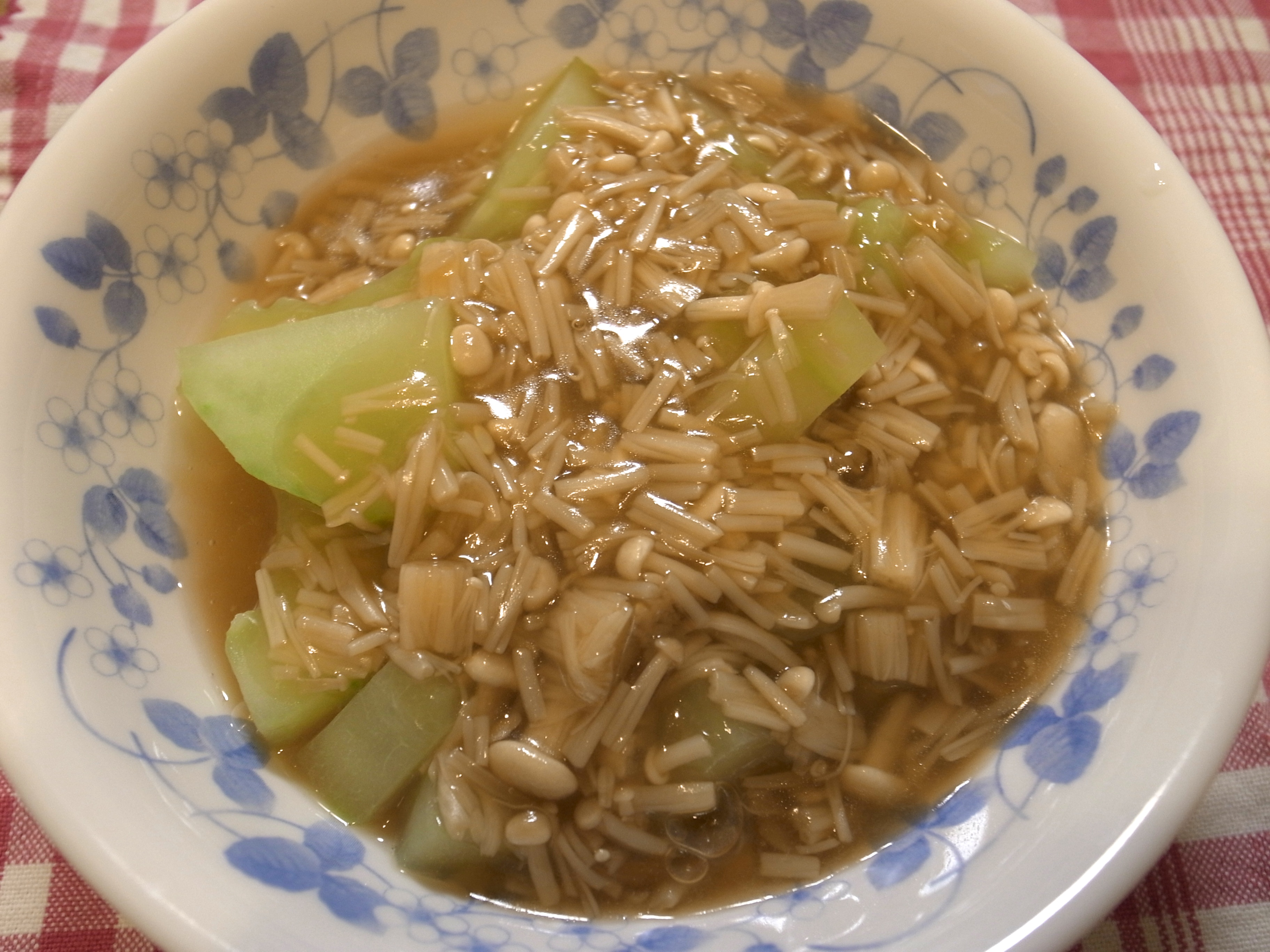 Boiled Kaga giant cucumber with enoki mushroom thick sauce